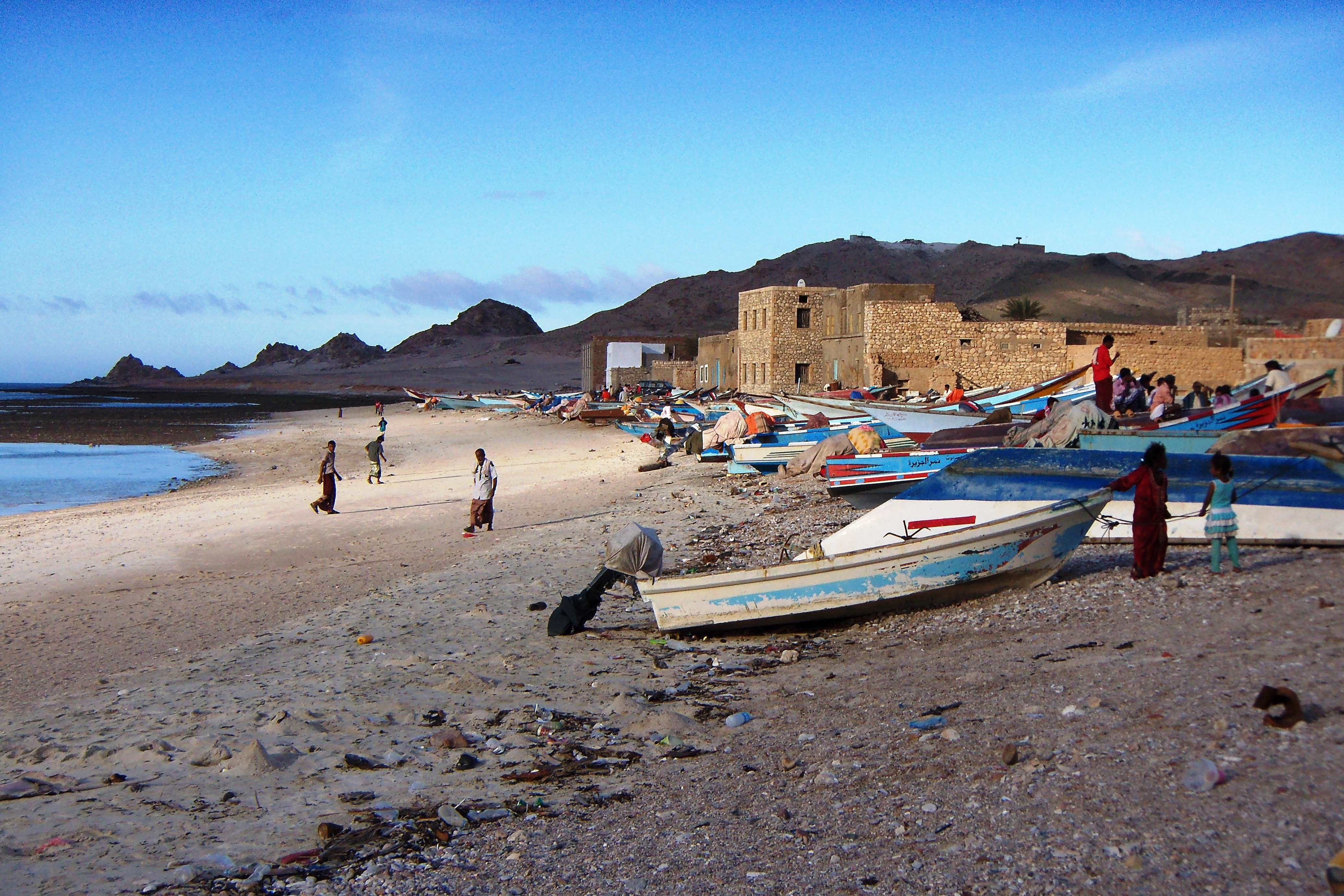 people boats island fishing yemen socotra soqotra qalansiya